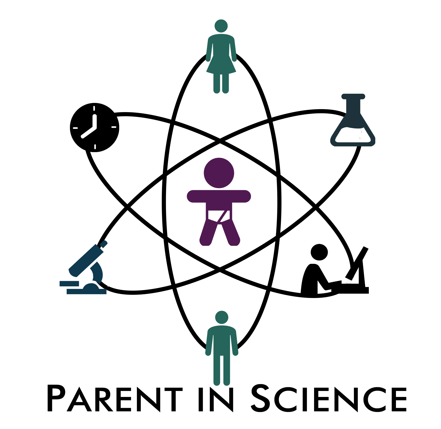 Logo of the "Parent in Science" project, created by Brazilian cientists to discuss the impact of motherhood and fatherhood on the scientific production of researchers.